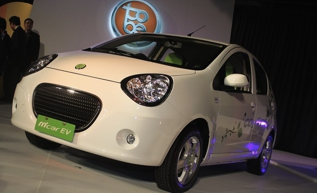 Tobe M'car, a Taiwanese electric vehicle, based on Geely Panda (Geely LC)